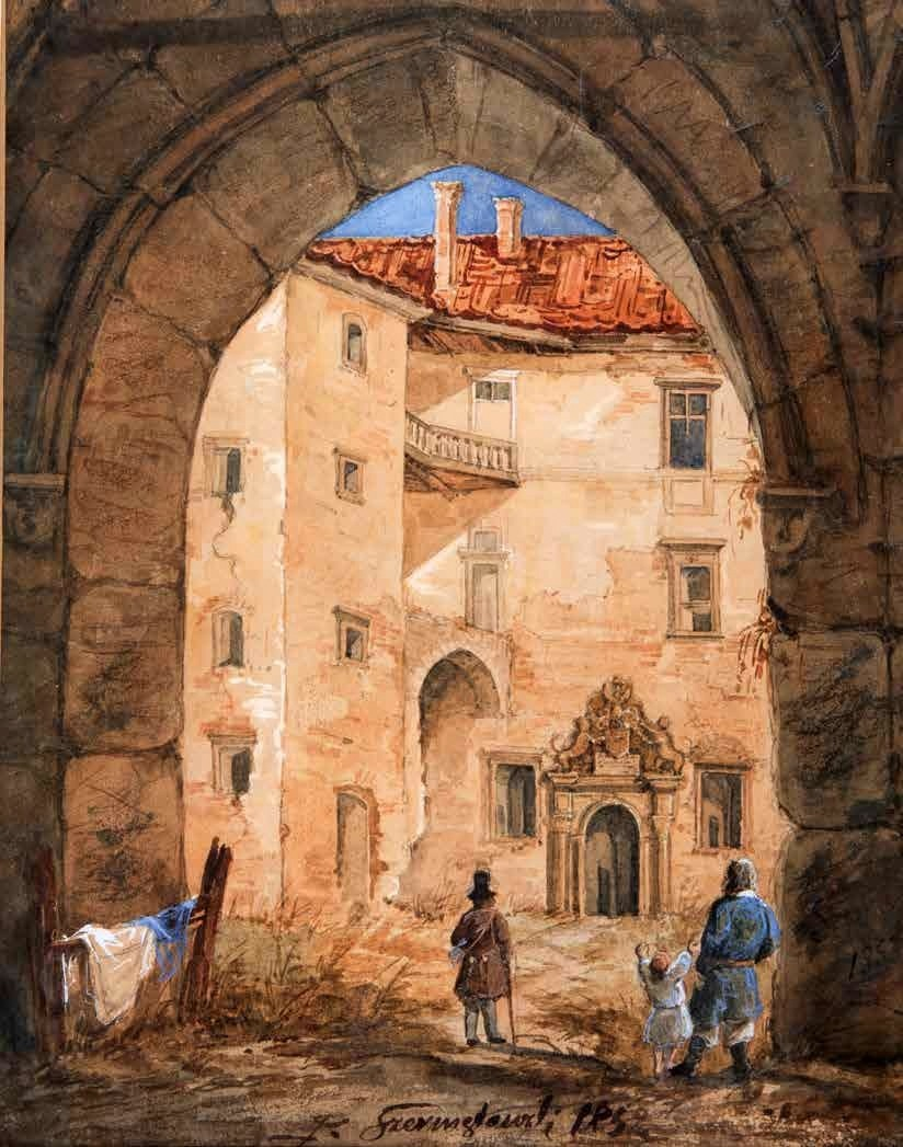 Reproduction of picture by Jozef Szermentowski - "Dziedziniec zamku w Szydłowcu" ("Court of Szydłowiec Castle")